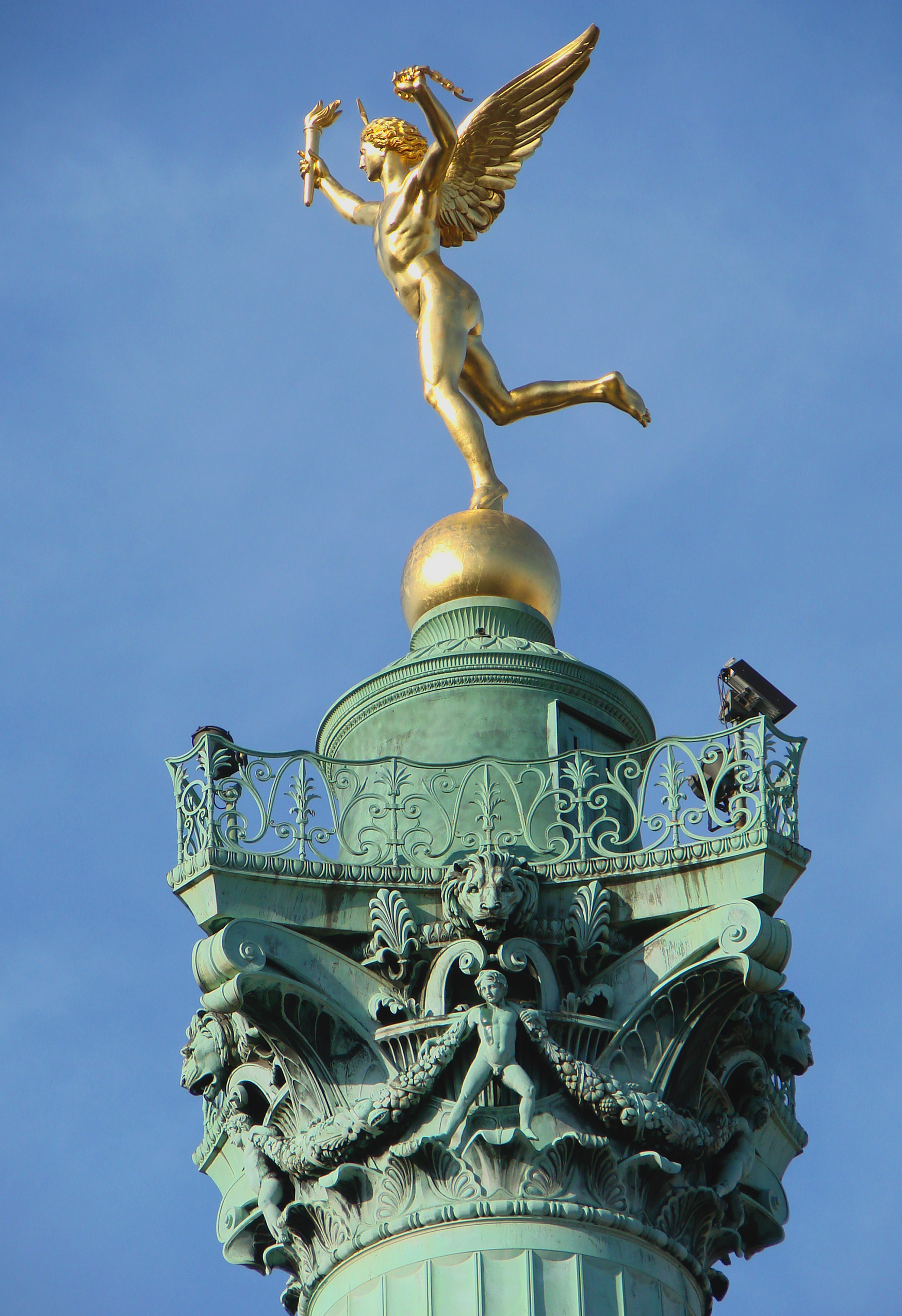 The top of the Colonne de Juillet, with the Génie de la Liberté by Augustin Dumont (1801 -1884). Place de la Bastille, Paris.